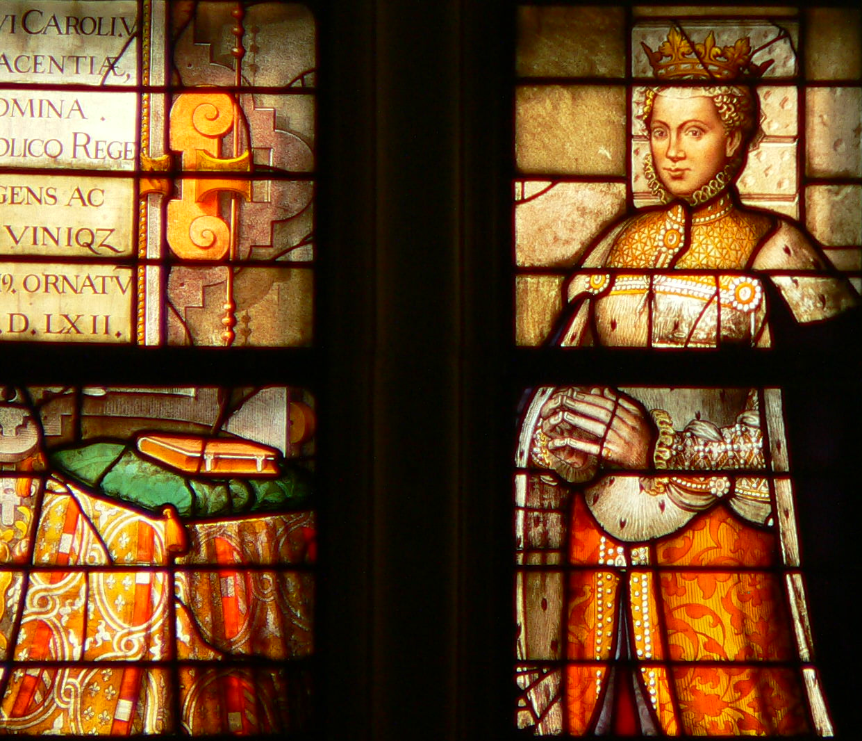 The stained-glass window number 23 (bottom, detail) in the Sint Janskerk at Gouda/Netherlands: "Margaret of Parma"